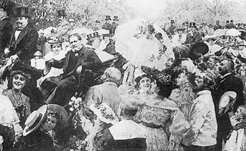 75th Anniversary of the pogroms of November 1938: Karl Lueger (in the carriage, left), the popular mayor of Vienna from 1897 until his death in 1910. He was elected on an anti-Semitic program. During his time in office, the young Adolf Hitler lived in Vienna, trying to enter the art academy. Watercolor by Wilhelm Gause, 1904.